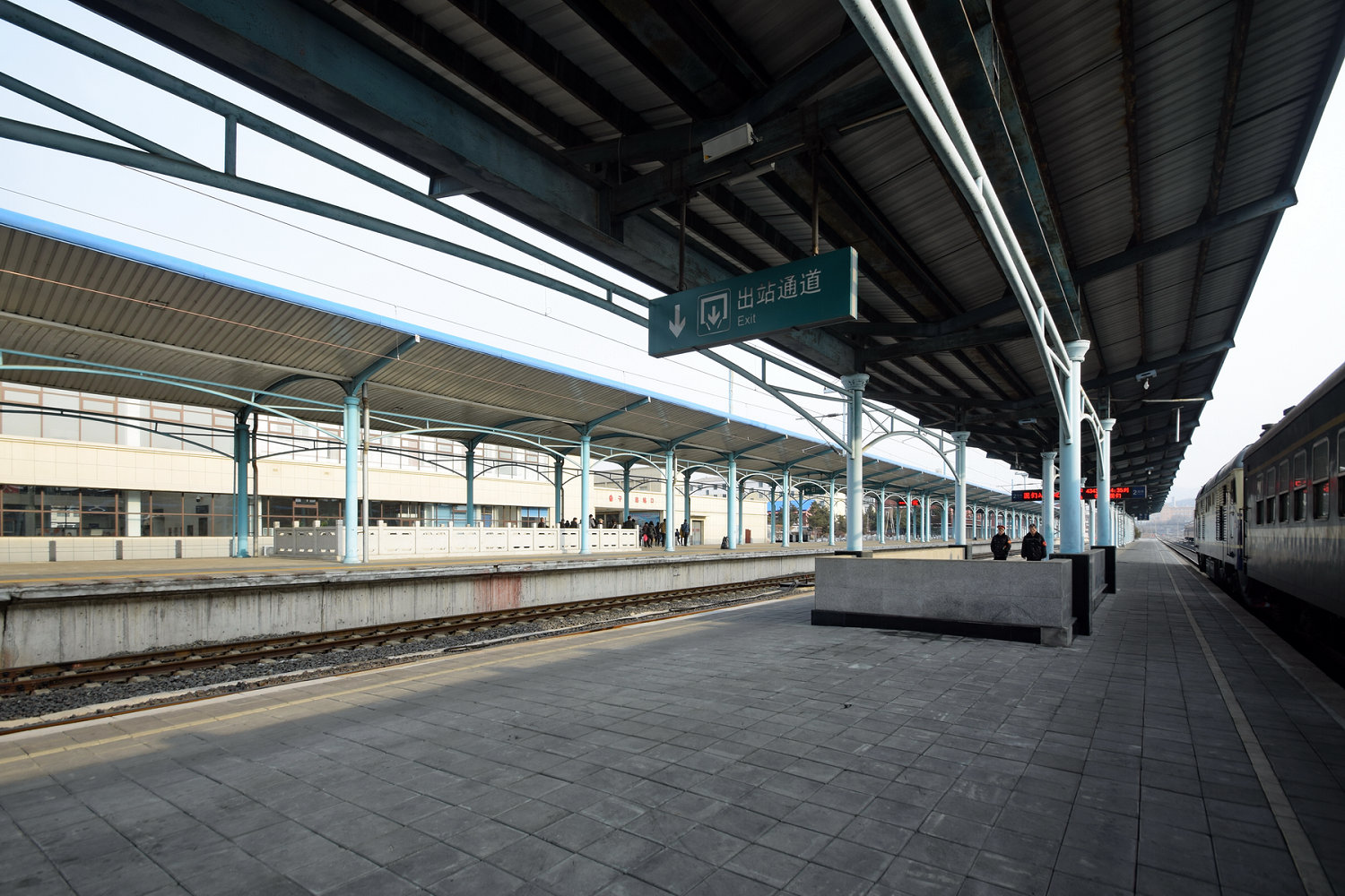 Platform 2 of Tumen Railway Station, view towards Namyang Railway Station of North Korea.